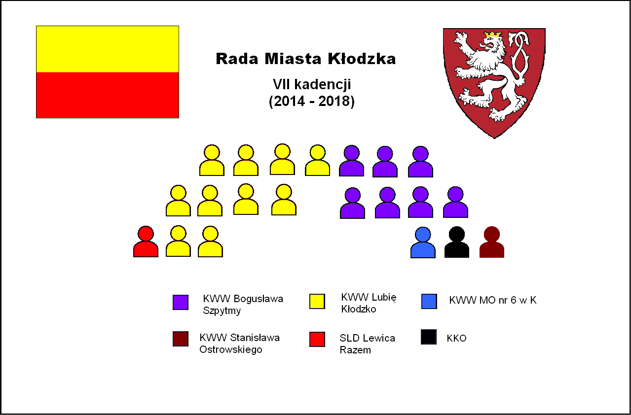 Town Council in Kłodzko (2014-2018)